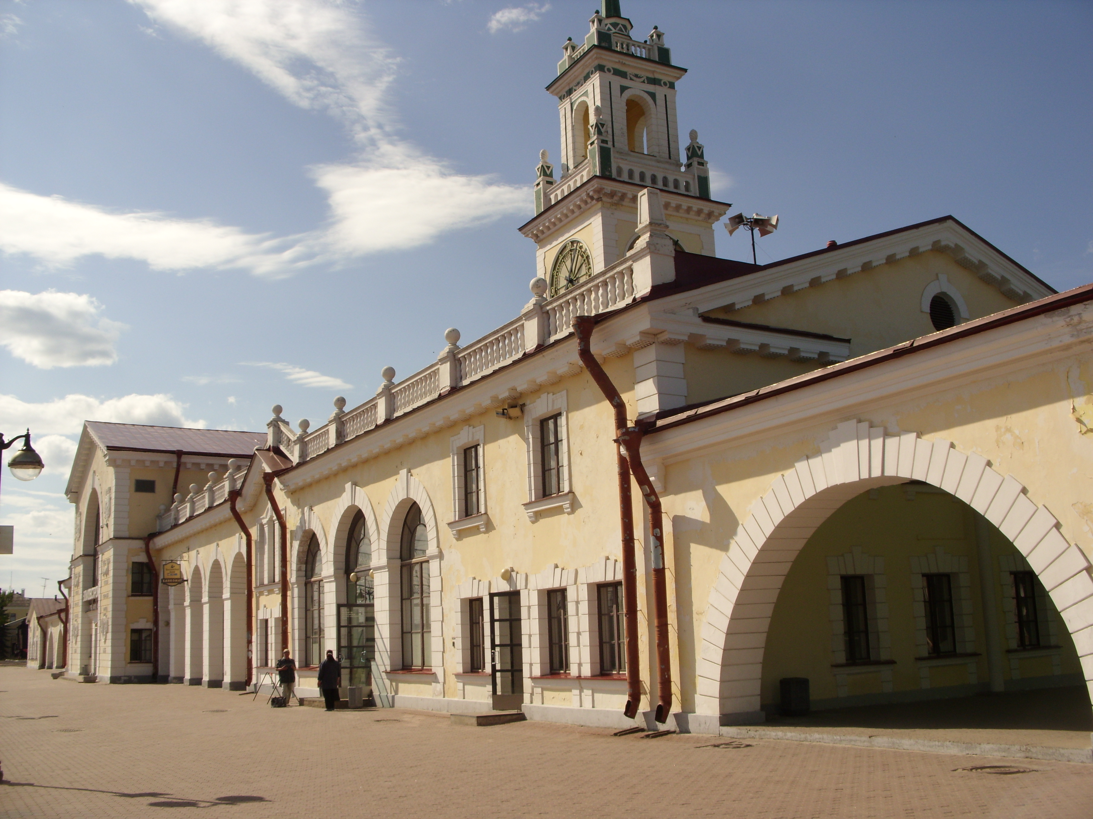 Volhovstroi-1. Vokzal.